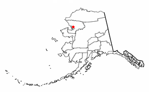 Adapted from Wikipedia's AK borough maps by Seth Ilys.